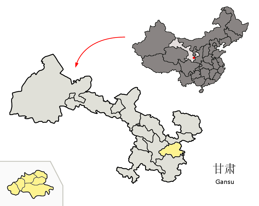 Location of Tianshui Prefecture (yellow) within Gansu province of China Map drawn in october 2007 using various sources, mainly : Gansu province administrative regions GIS data: 1:1M, County level, 1990 Gansu Counties map from